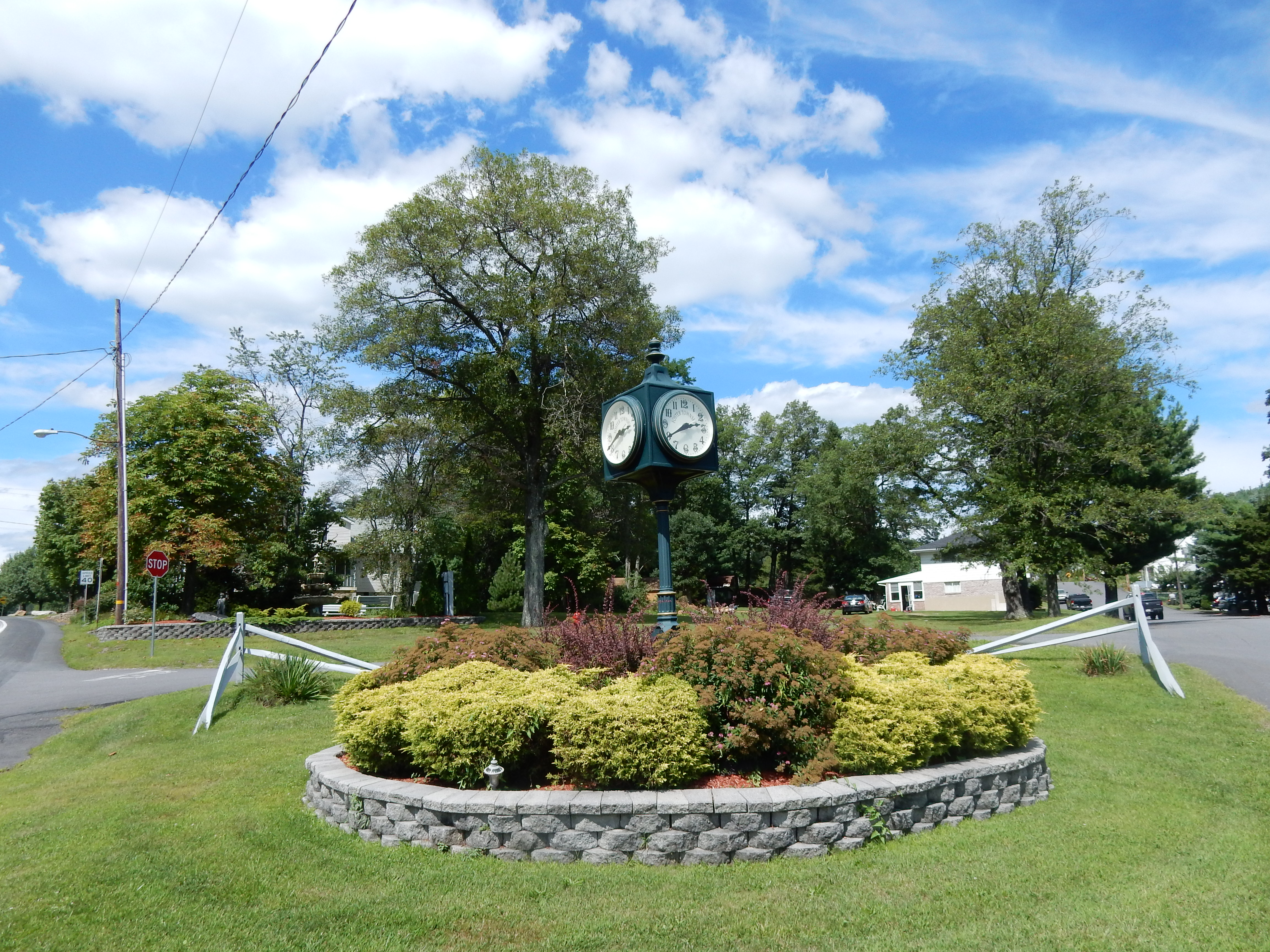 Buck Run, Foster Township, Schuylkill County, Pennsylvania. Corner of Sunbury Rd. and Upper Beechwood Ave.